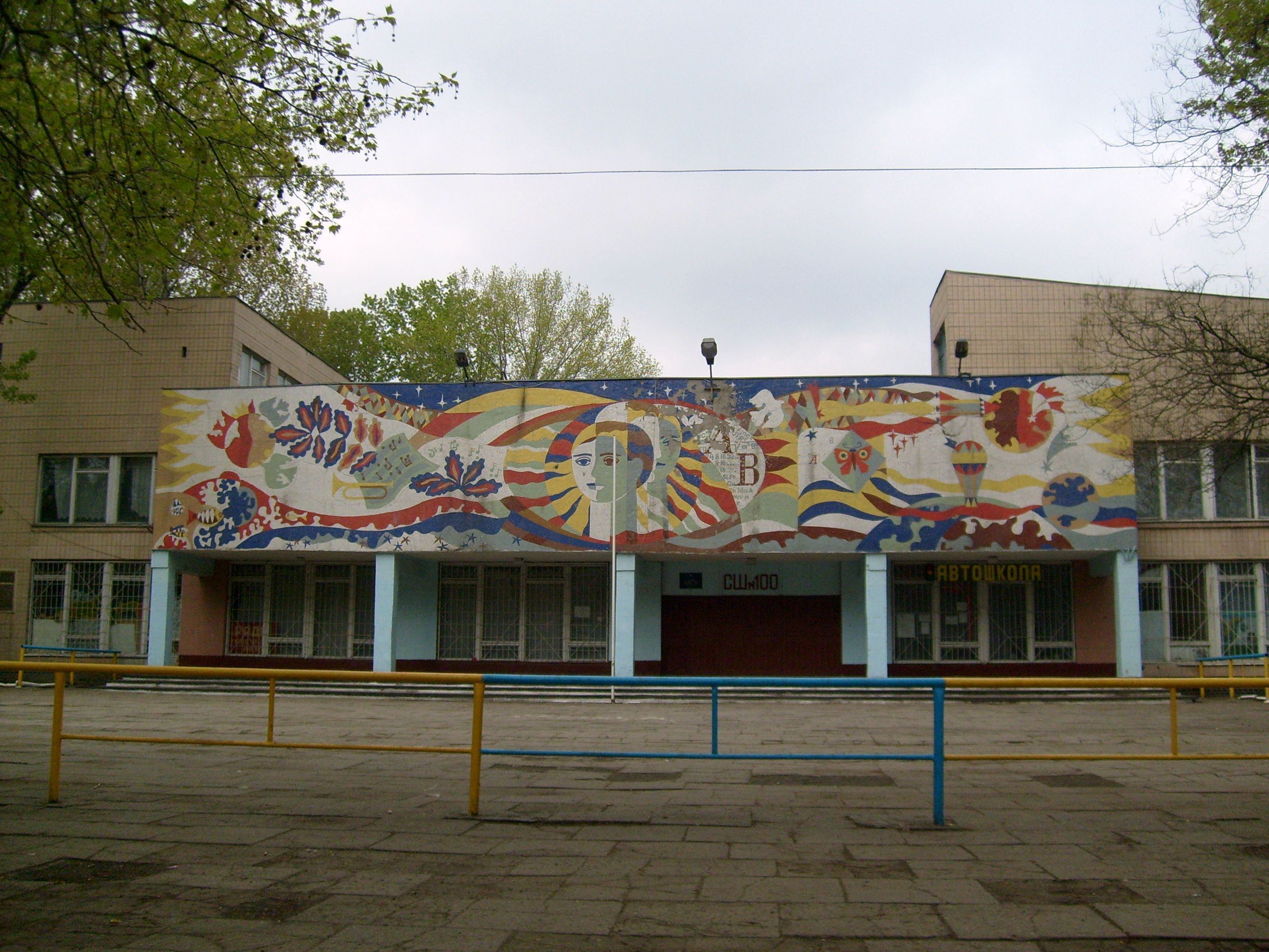 Secondary School 100 in Odessa. Filming location of the film The Adventures of Petrov and Vasechkin (1983).